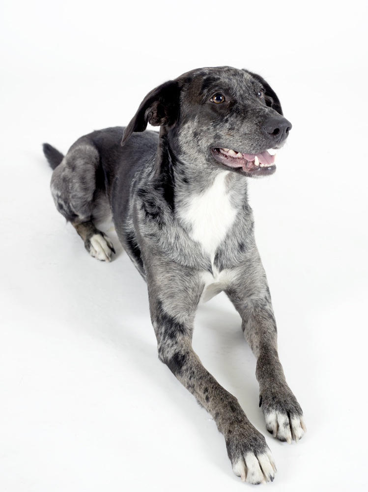 Catahoula Leopard Dog